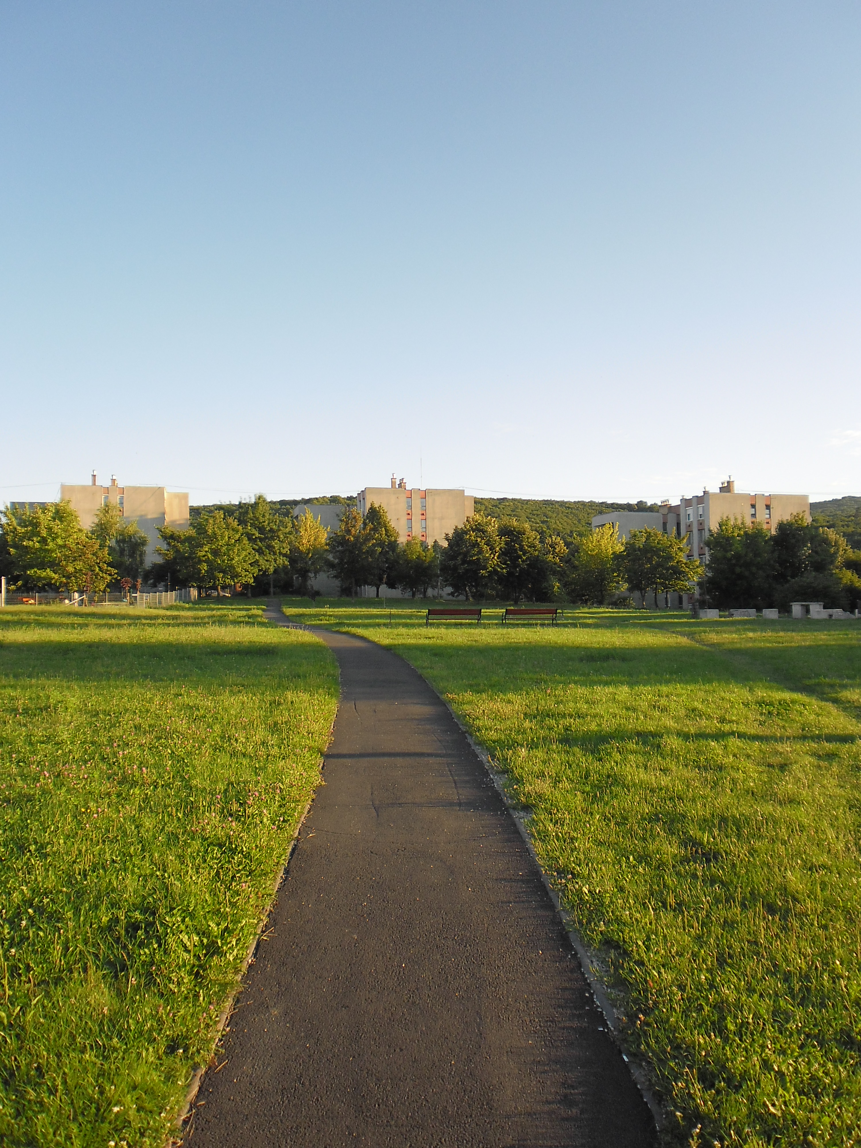 Park in Komlóstető